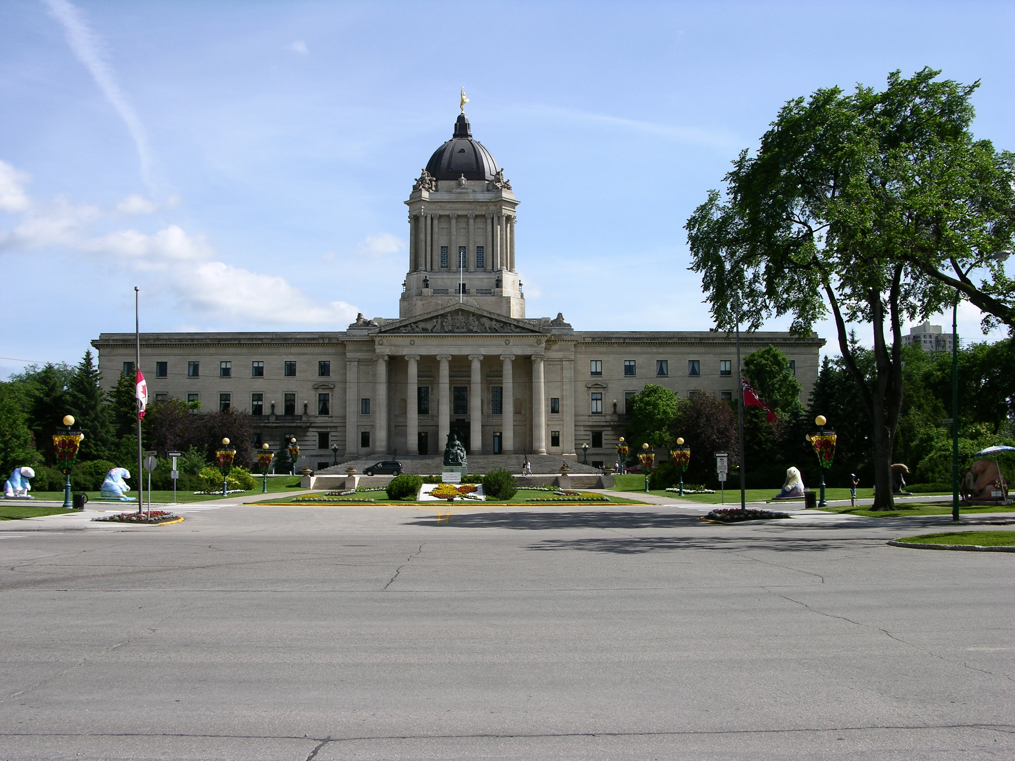 The provincial legislative building in Winnipeg Manitoba Canada